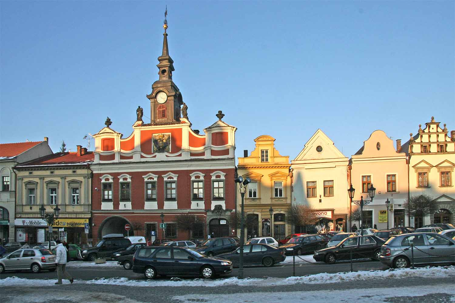 Main square in Chrudim, Czech Republic.